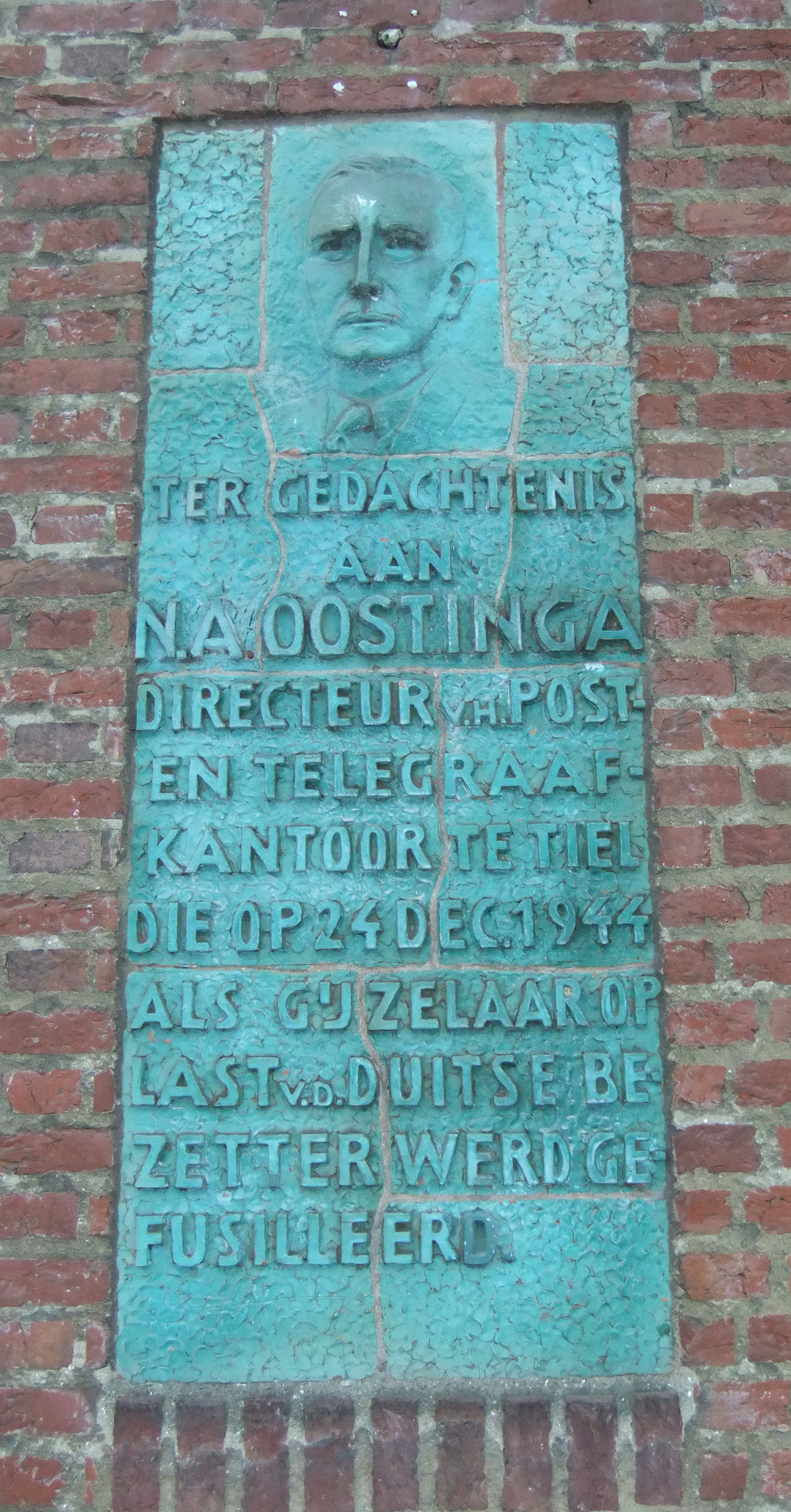 Memorial for N.A.Oostinga, Tiel, The Netherlands